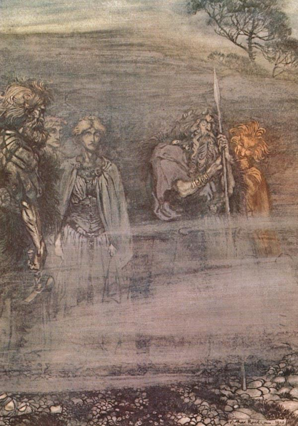 Donner, Froh, Fricka, Wotan and Loge rue the loss of Freia and her apples.